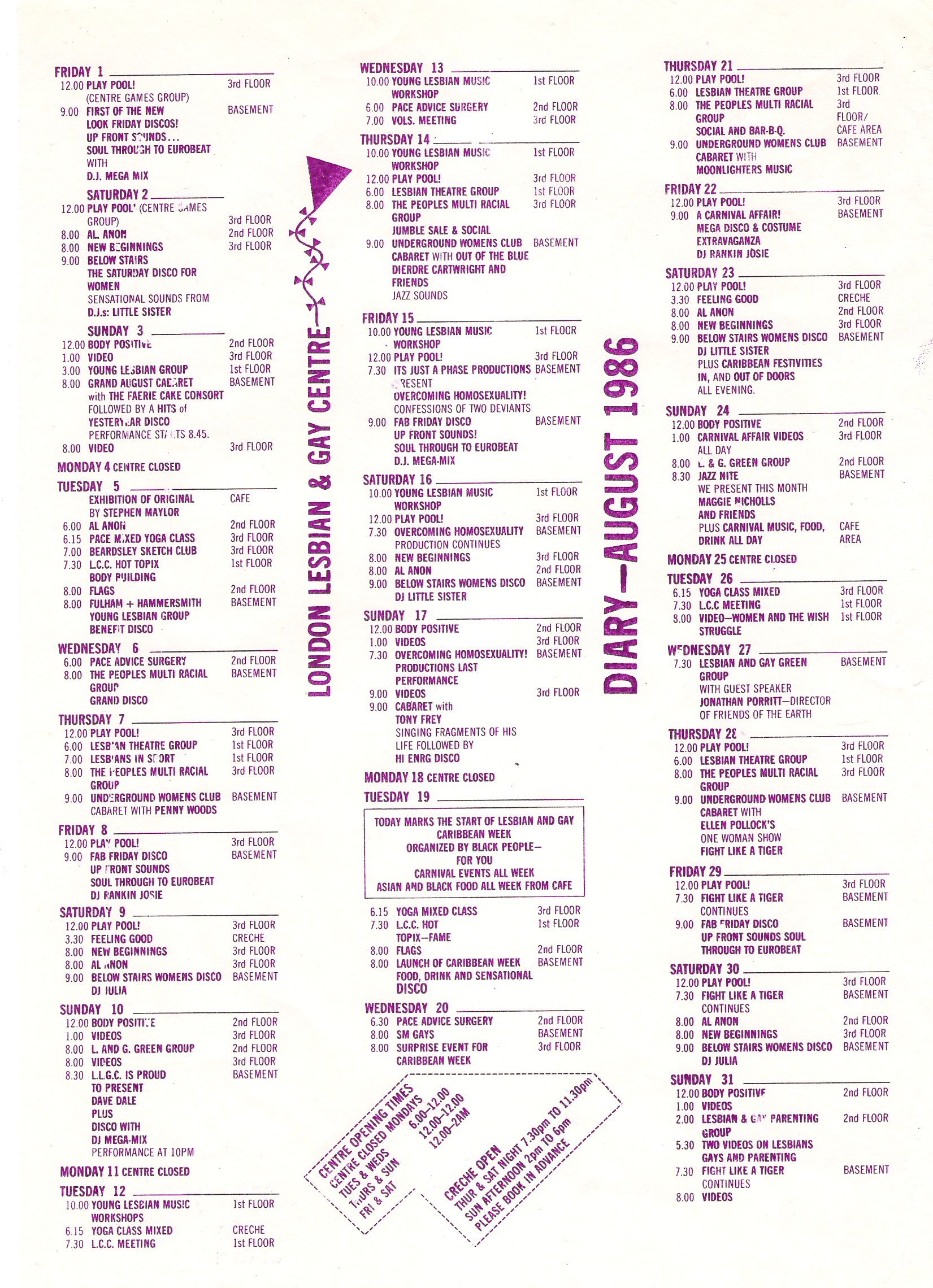 Scan of calendar leaflet (inside) for the London Lesbian & Gay Centre, August 1986. Original produced by me too.